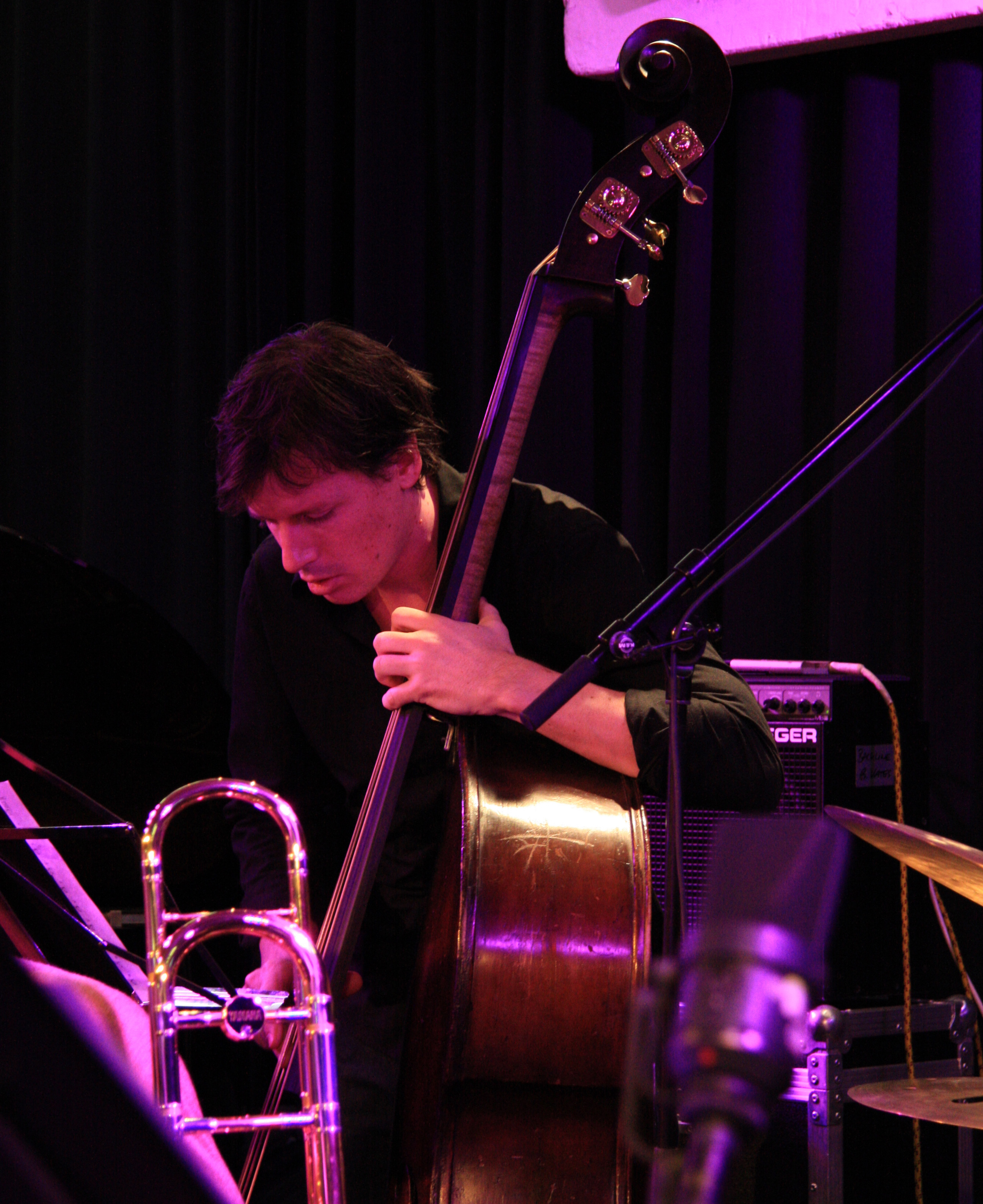 Matt Penman performing at a workshop in Munich (Germany) with the band San Francisco Jazz Collective